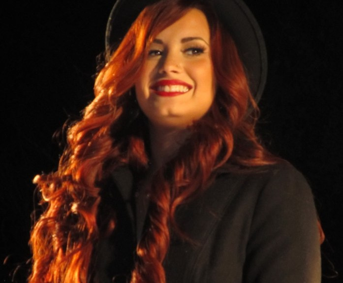 Demi Lovato in December 2011.